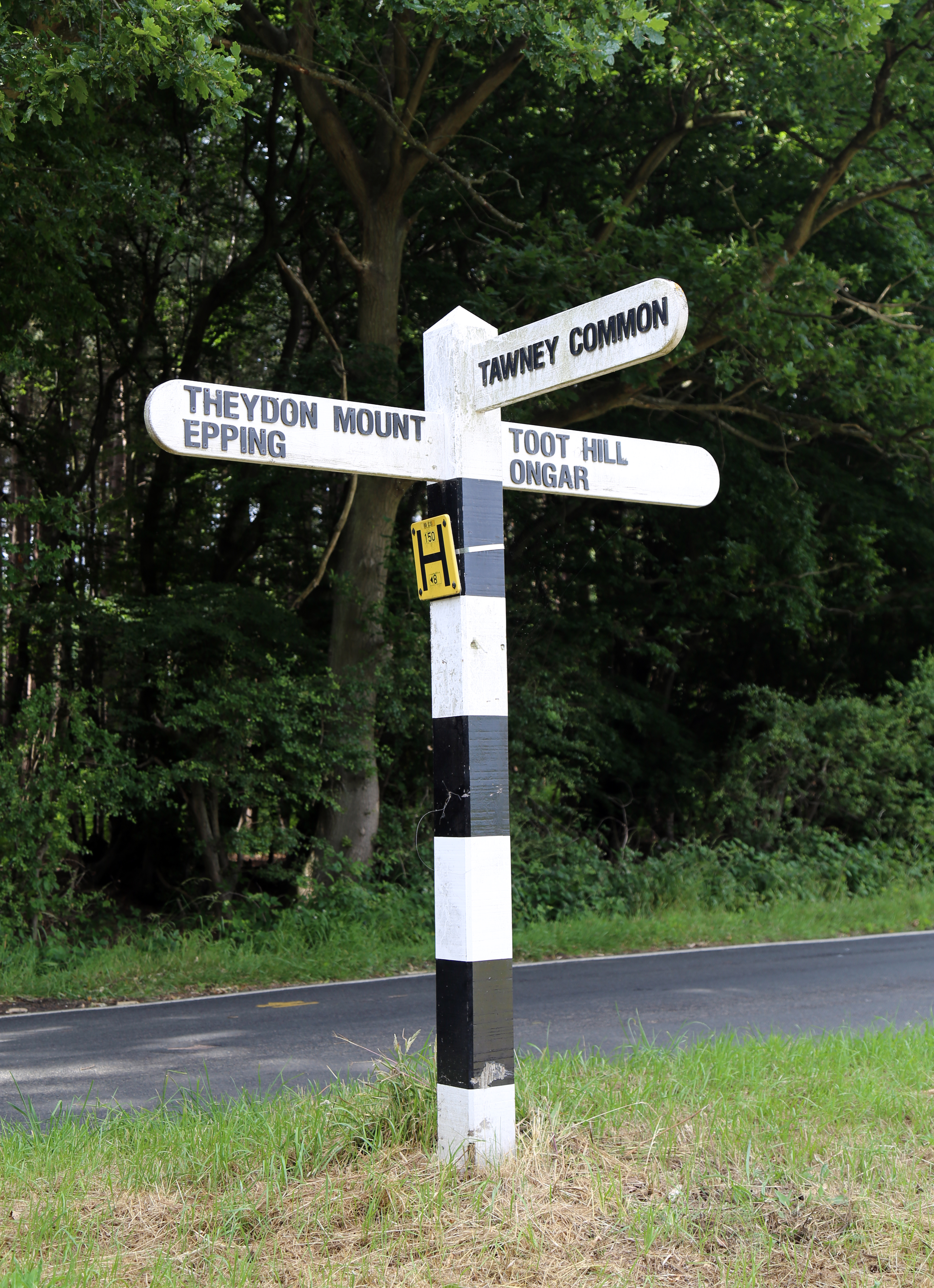 A finger-post at the junction of Banks Lane and Tawney Common (road) in the civil parish of Theydon Mount, Essex, England